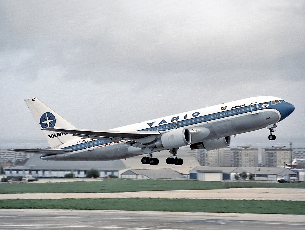 A Varig Boeing 767-241/ER at Lisbon Portela Airport (LIS / LPPT)